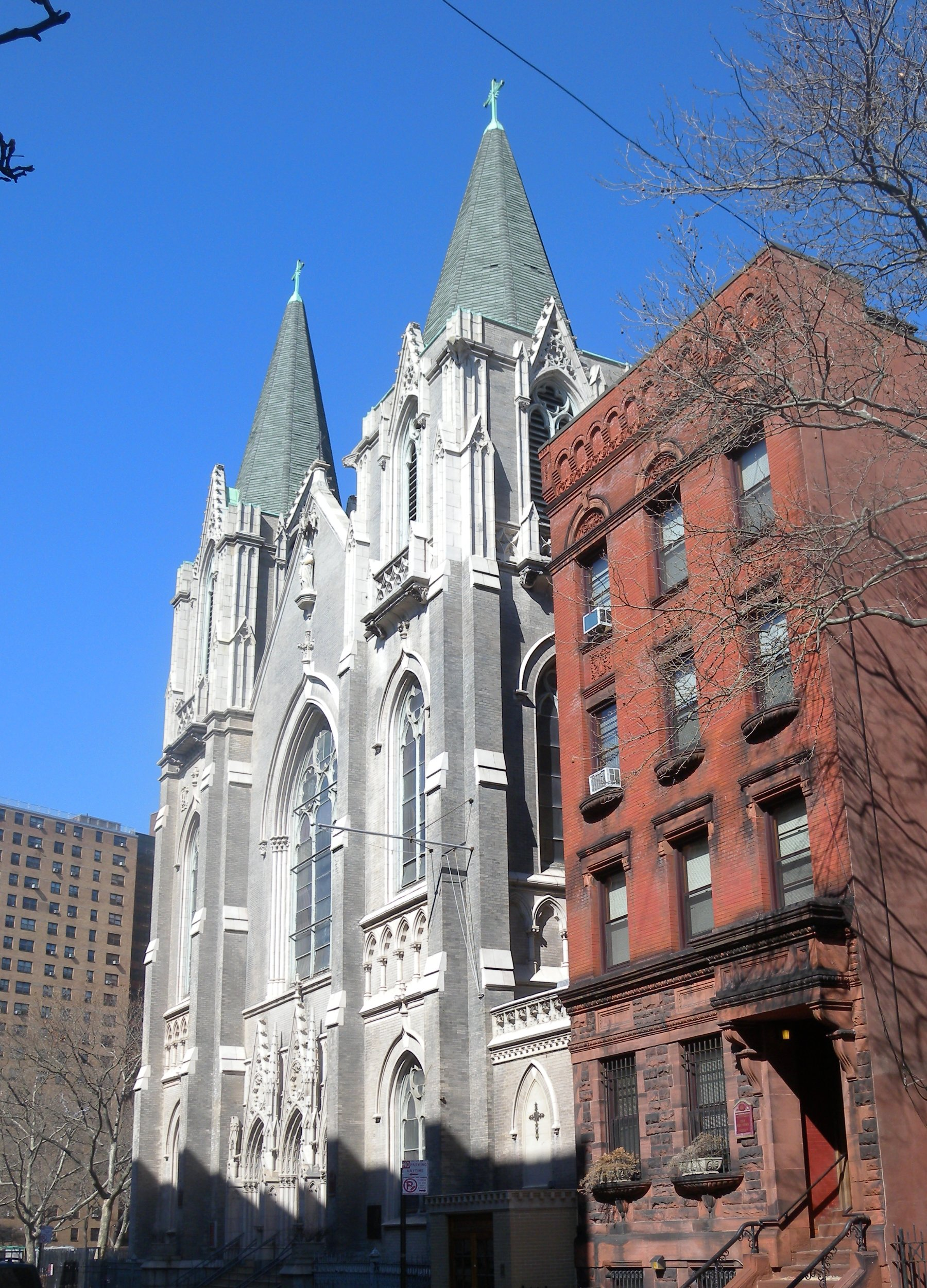 Looking north across 141st Street at St Charles Borromeo Church on a sunny midday.